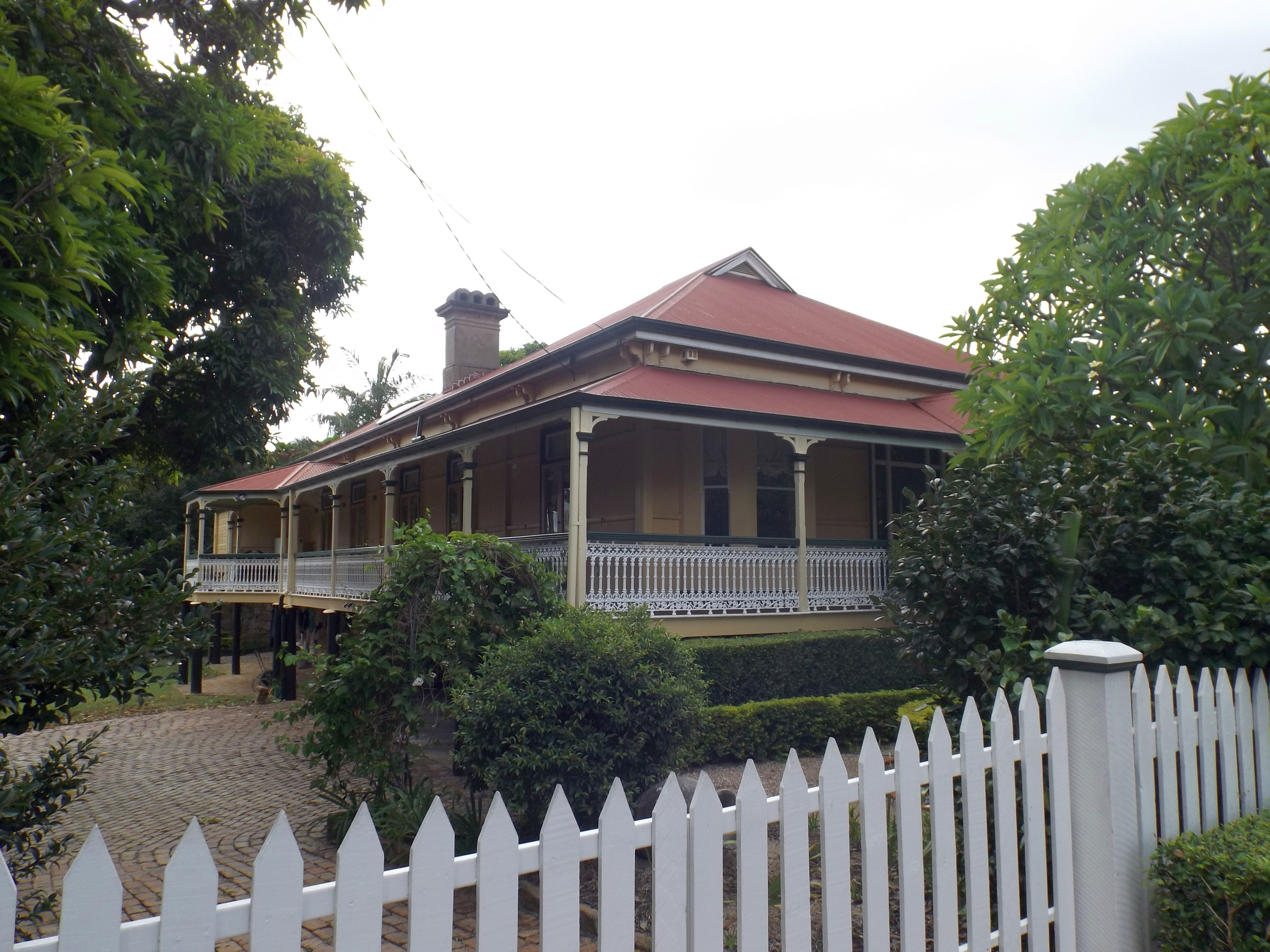 Photo of Hester Villa at East Brisbane, Brisbane, Queensland, Australia.